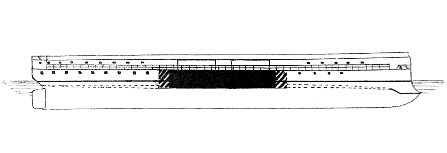 HMS Inflexible